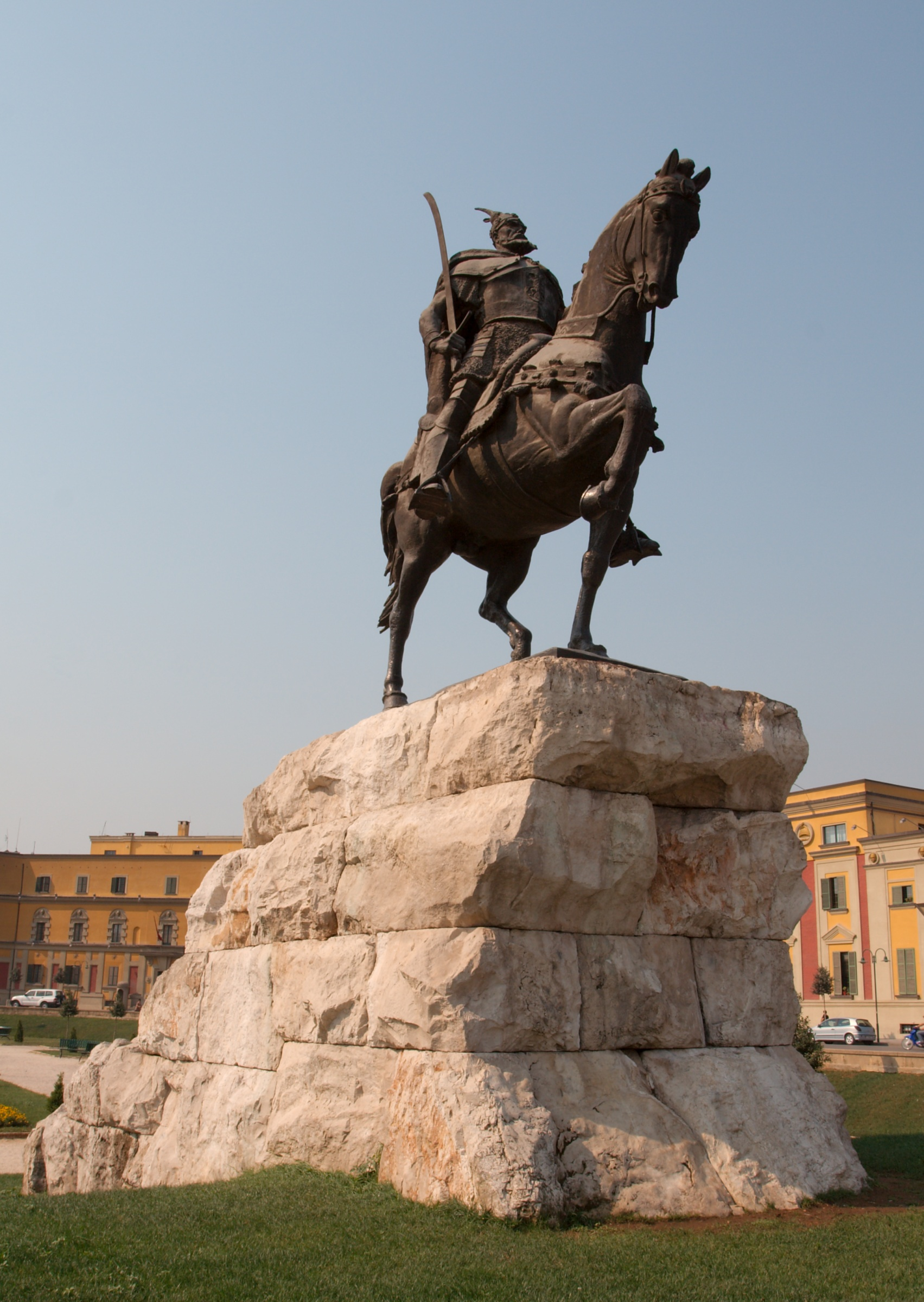 The statue of Skanderbeg in Tirana, Albania